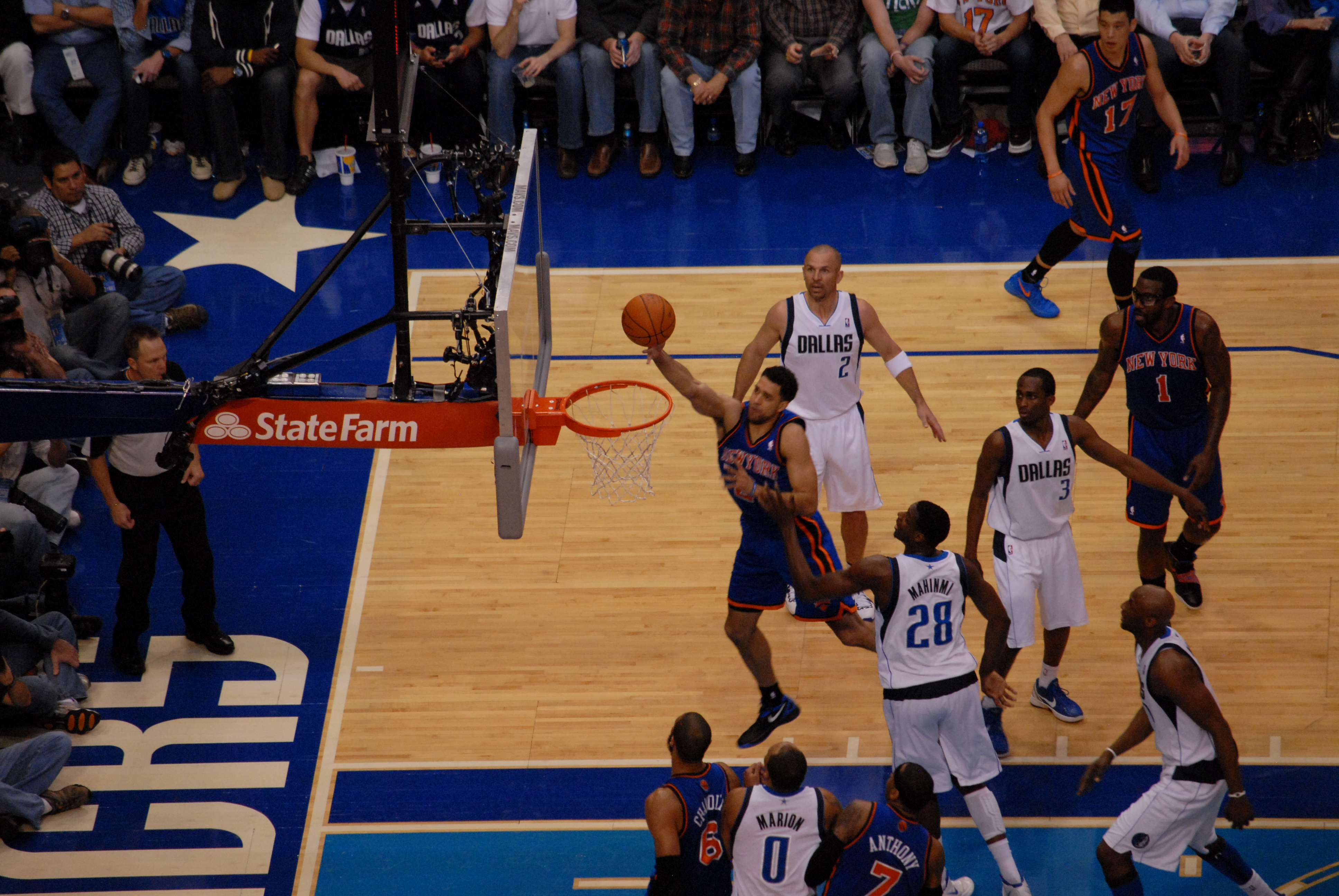 Landry Fields attempts to lay the ball into the basket in a game between the New York Knicks and the Dallas Mavericks